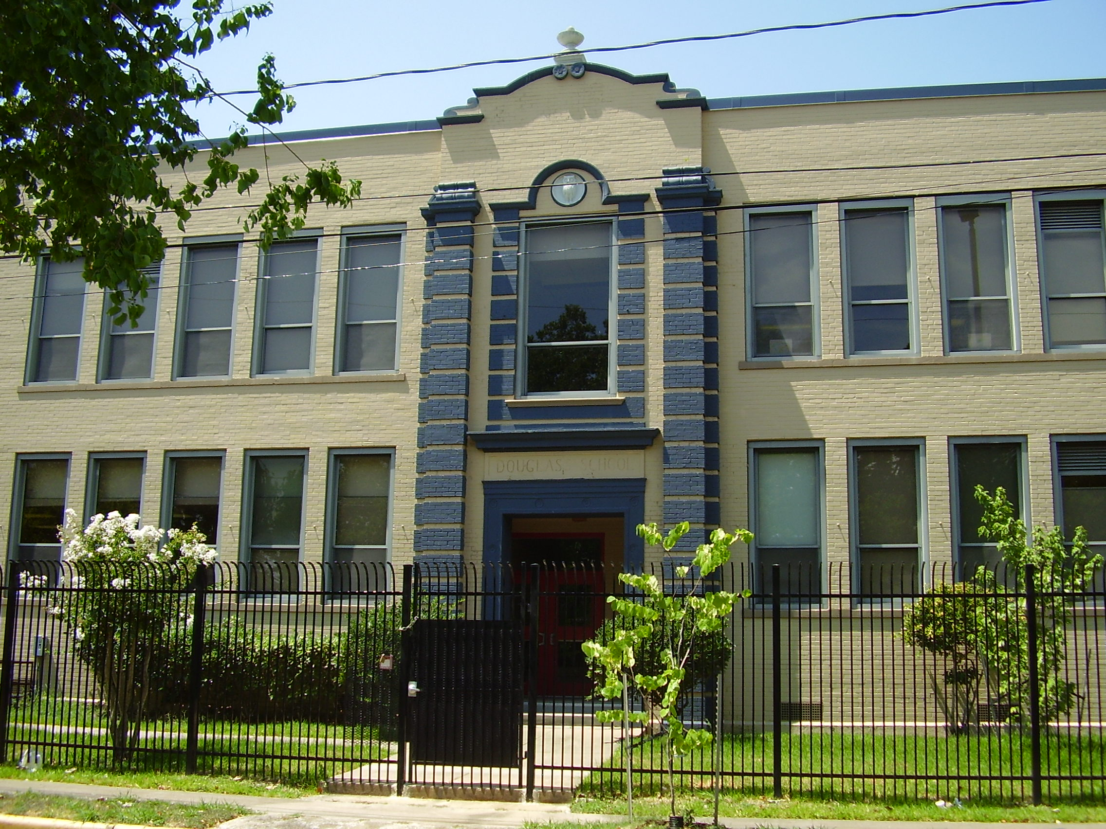 The former Frederick Douglass Elementary School, now Yellowstone Academy - 3000 Trulley Street, Houston, TX 77004